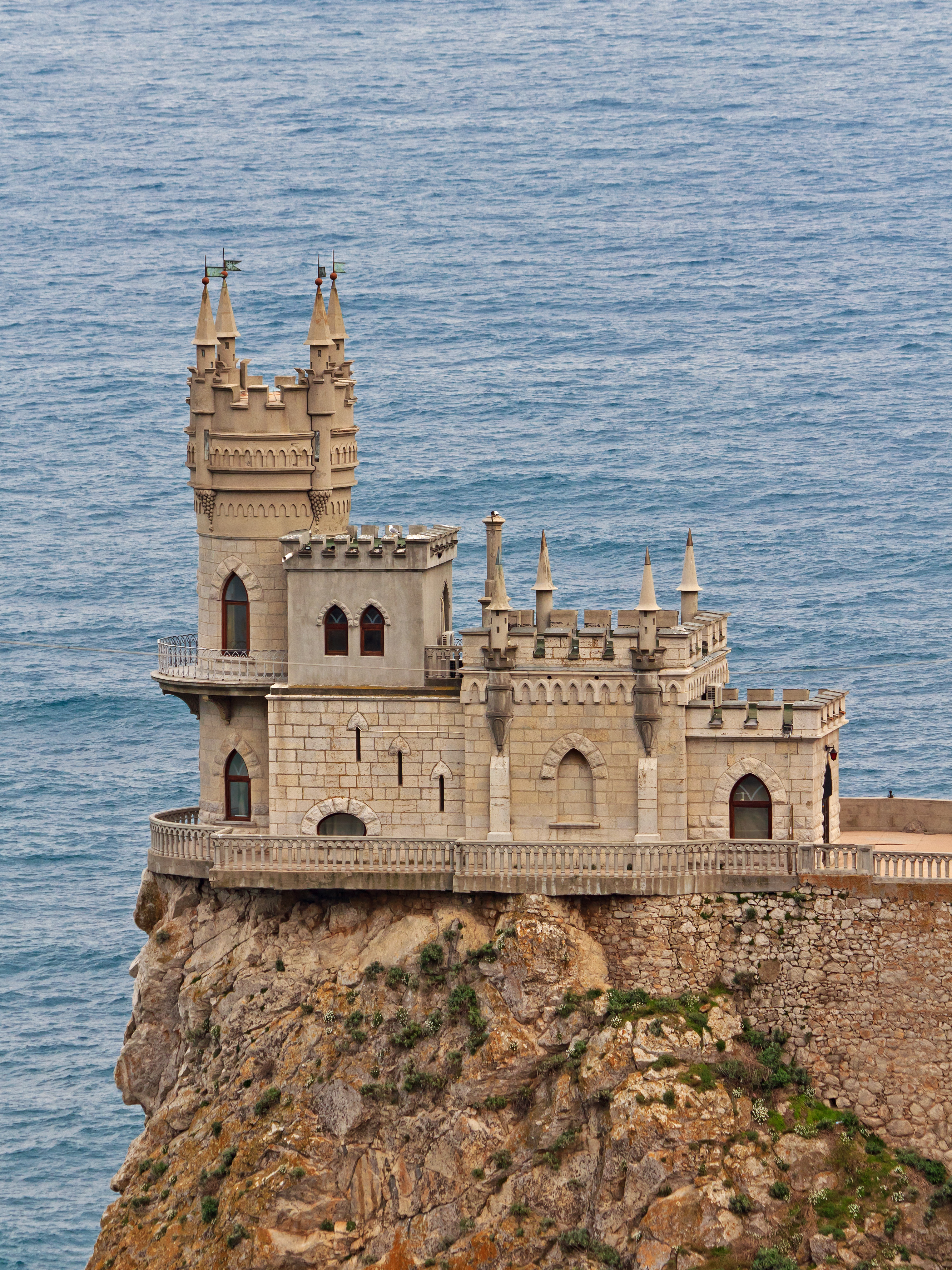 The Swallow's Nest Castle near Gaspra, Yalta municipality. Crimean Peninsula.